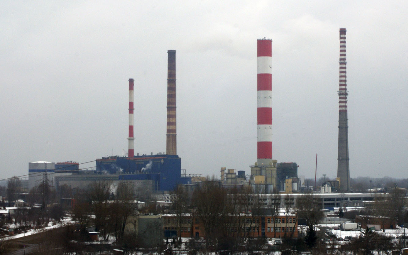 CHP plant Siekierki in Warsaw, Poland